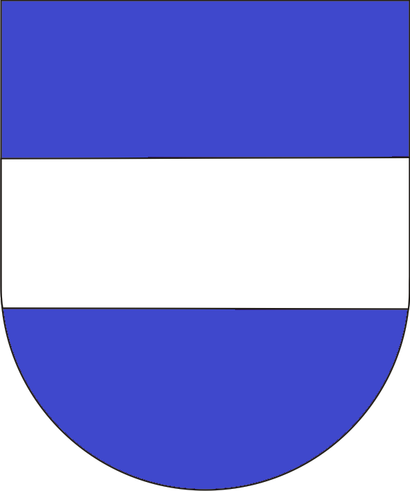 coats of arms of the lordship of Vinstingen